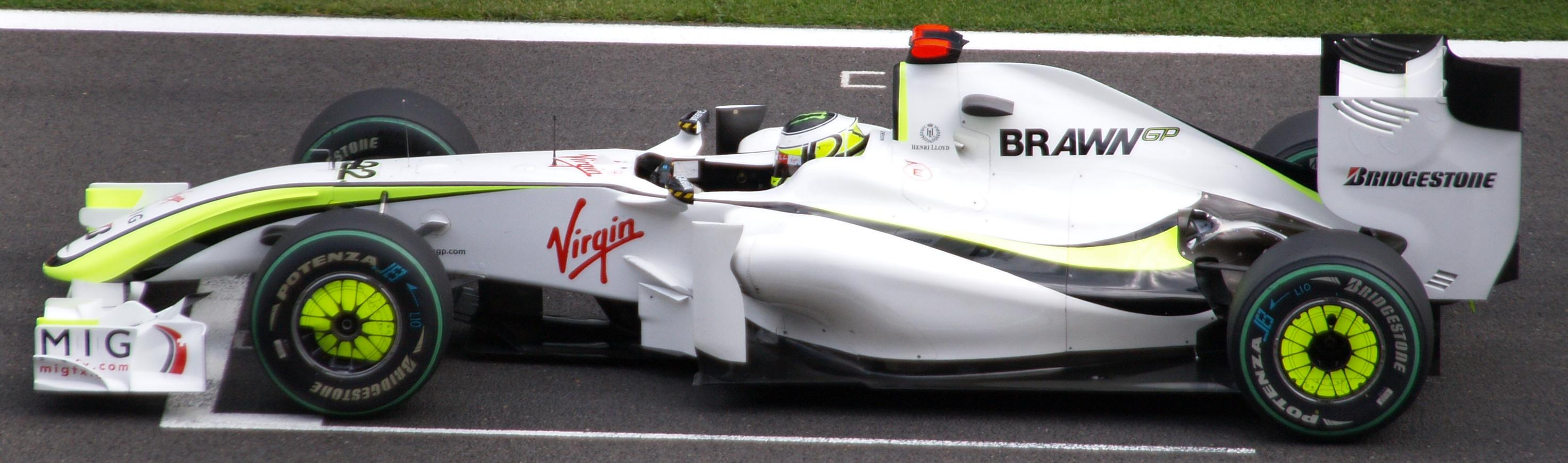 Jenson Button driving for Brawn GP at the 2009 Belgian Grand Prix.